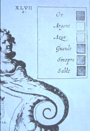 Hatching table of Jacob Franquart